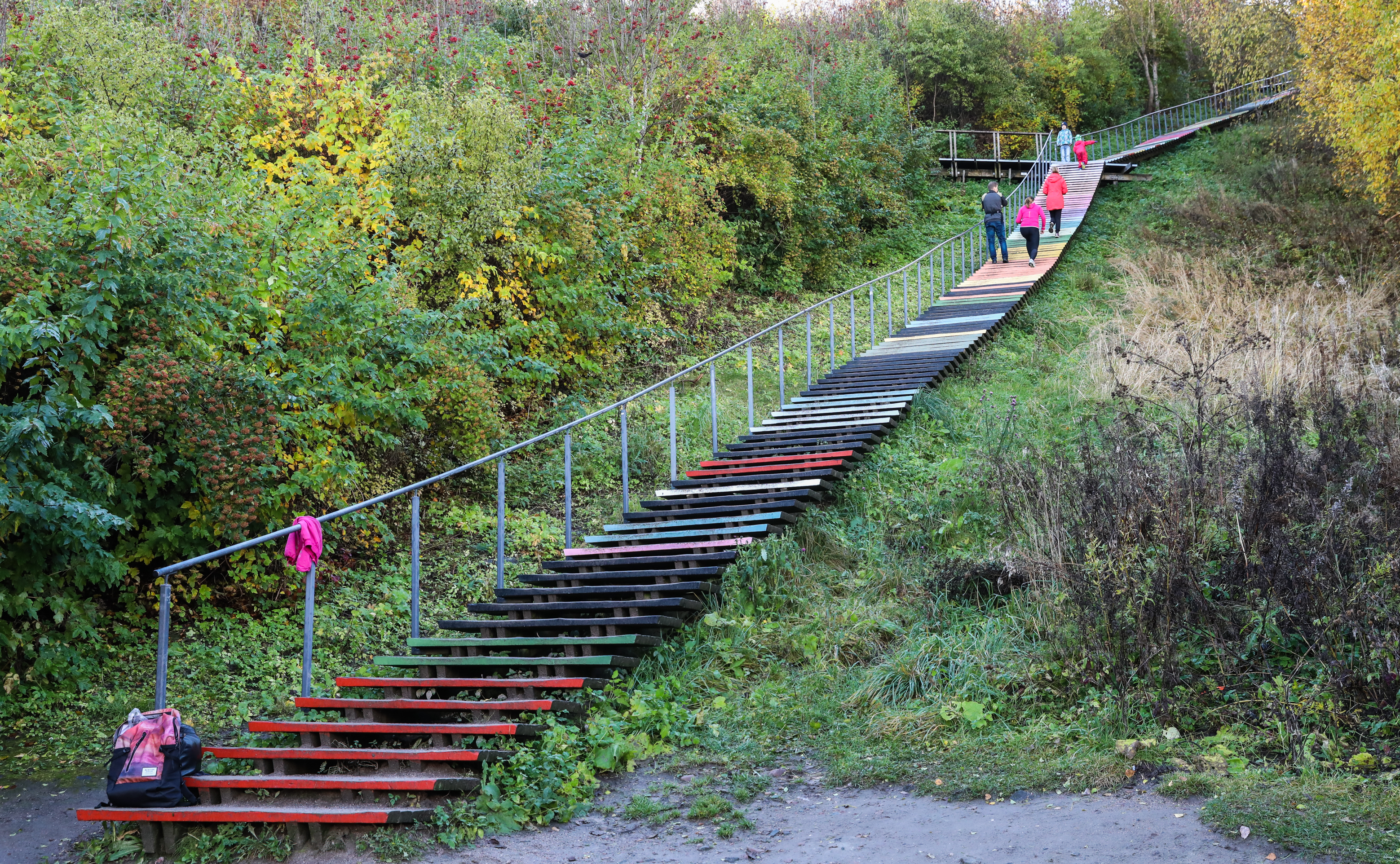 Stairs to Malminkartanonhuippu, the highest hill in Helsinki, Finland